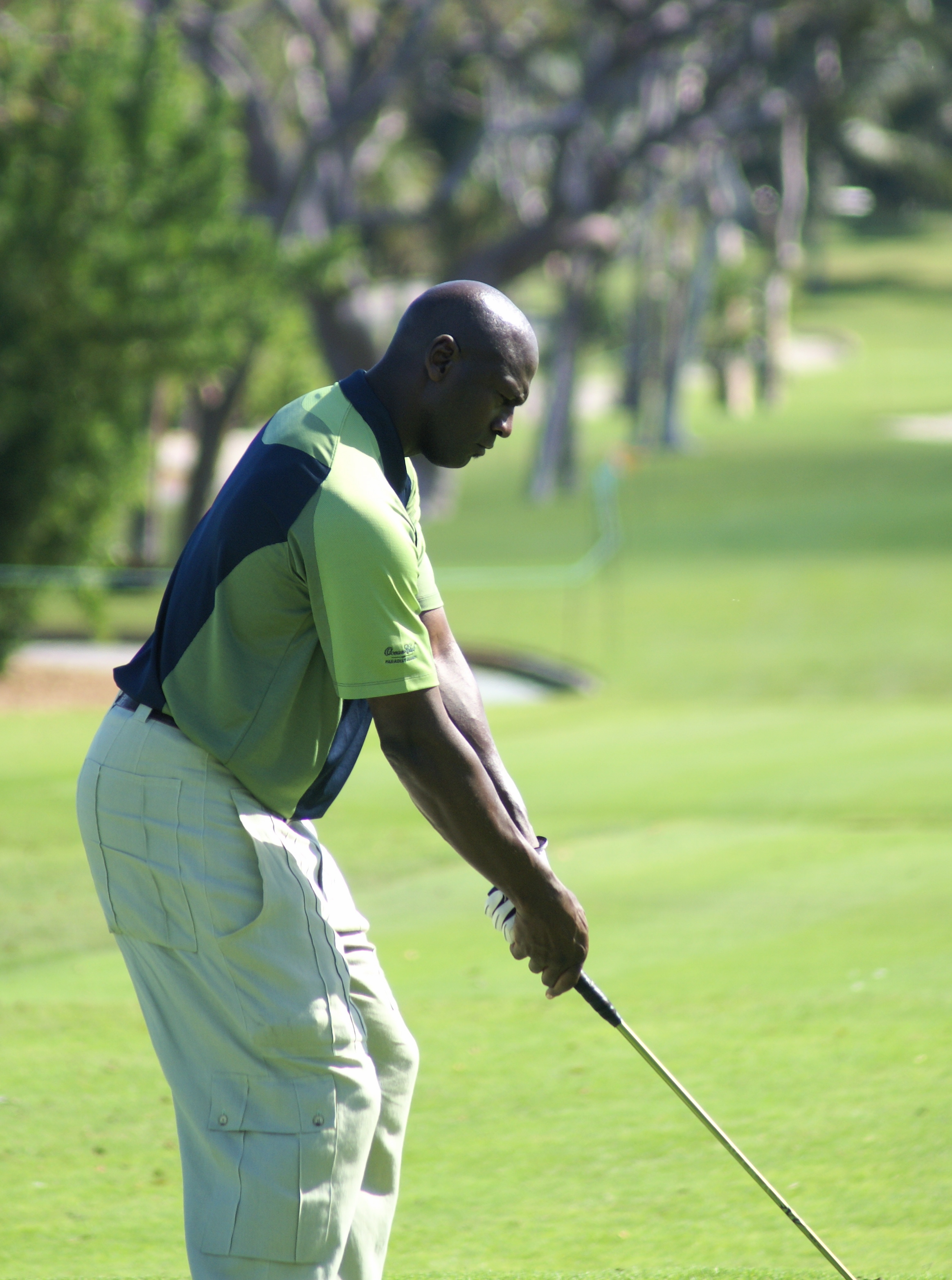 Michael Jordan teeing up on the golf course in 2007.